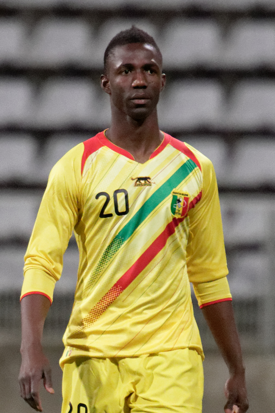 Mali vs Ghana, exhibition game at Paris, 31st March 2015.